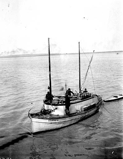 From John Cobb field notebook: Launch Katie G. at Koggiung, Alaska. July 1918 Subjects (LCTGM): Fishermen--Alaska--Koggiung Subjects (LCSH): Katie G. (Launch); Fishing boats--Alaska--Koggiung